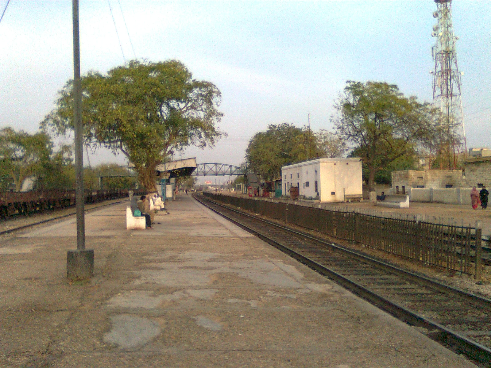 A view of Drigh Road railway station, Karachi, Pakistan